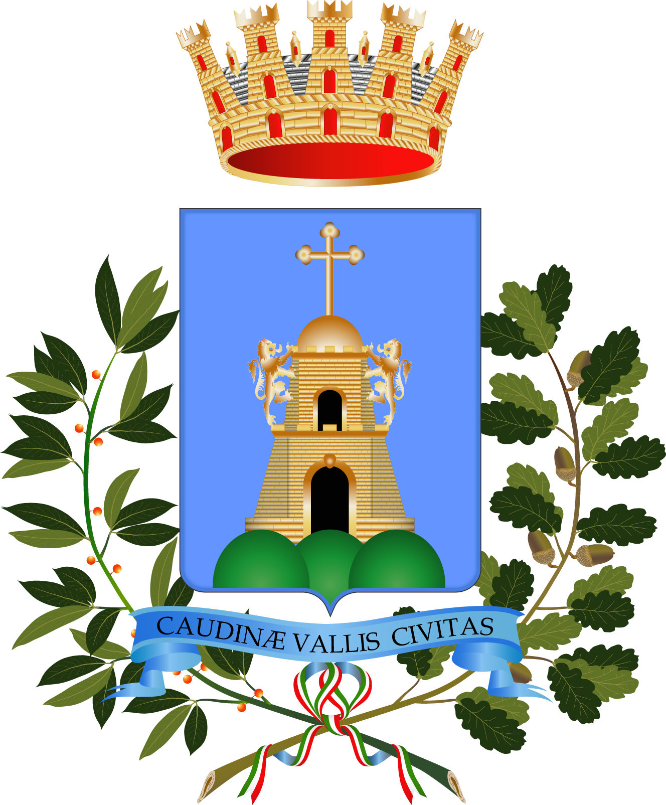 Coat of arms of Airola (Benevento), Italy